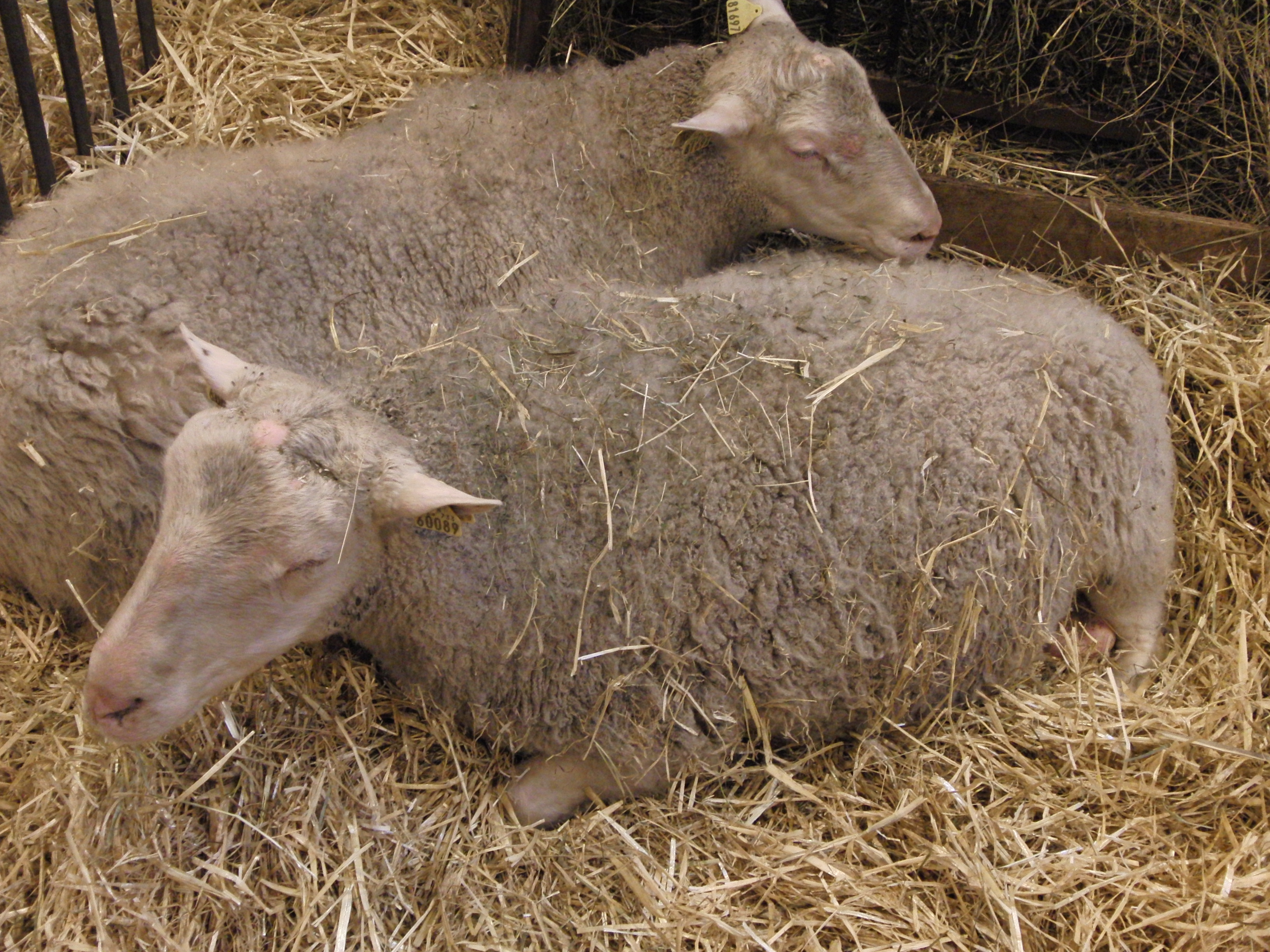 Finnsheep - Salon international de l'agriculture 2011, Paris, France